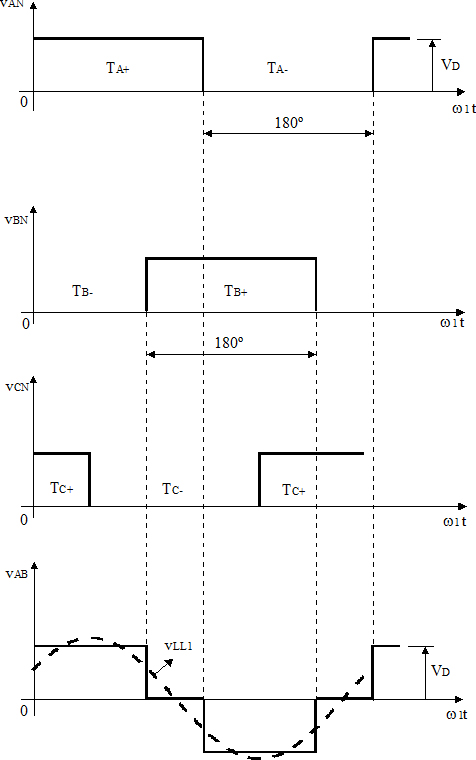 formacion señal senoidal con onda cuadrada